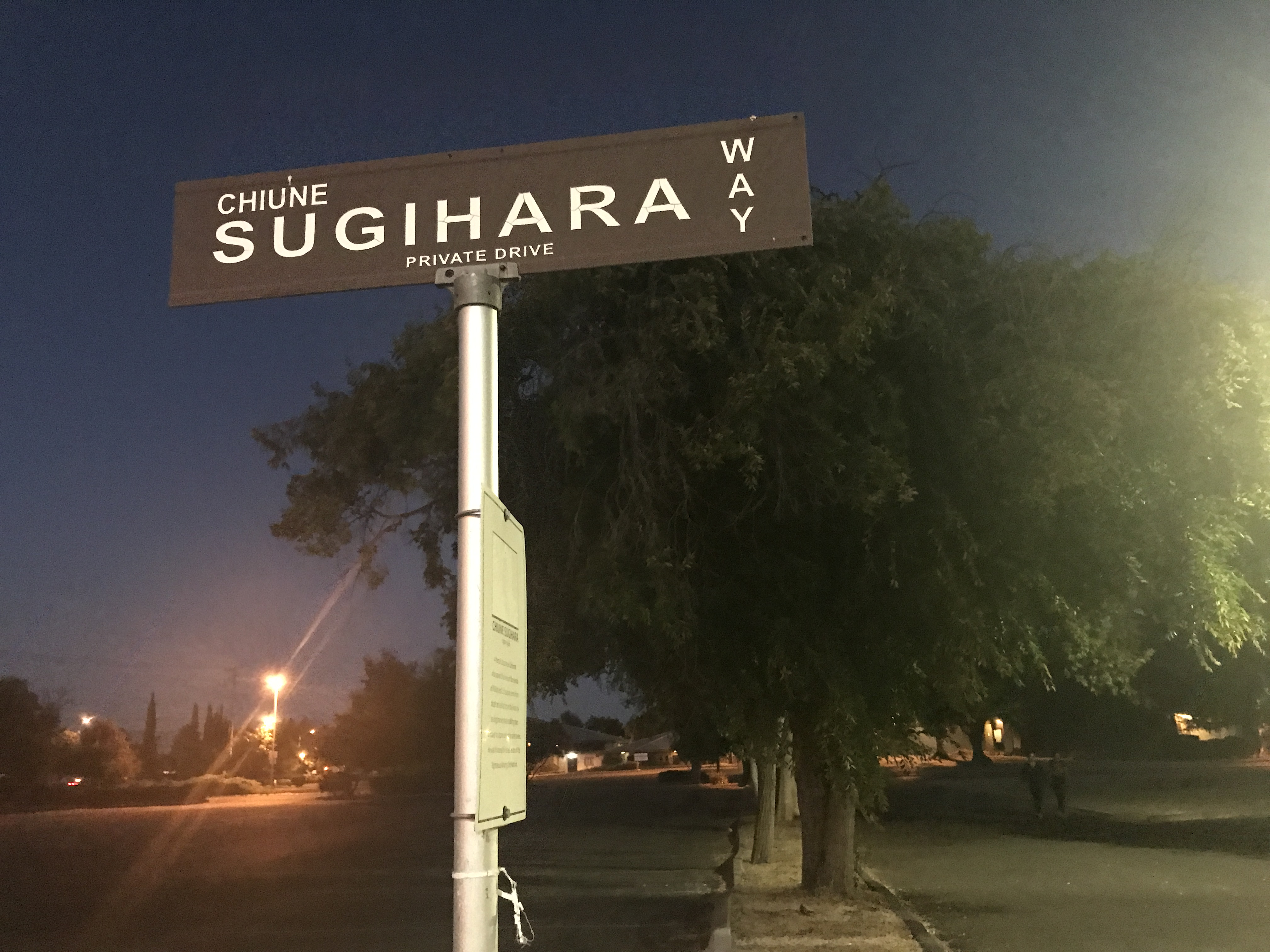 Photo of Sugihara Way in front of Congregation Beth David, Saratoga CA, USA in honor of Chiune Sugihara.